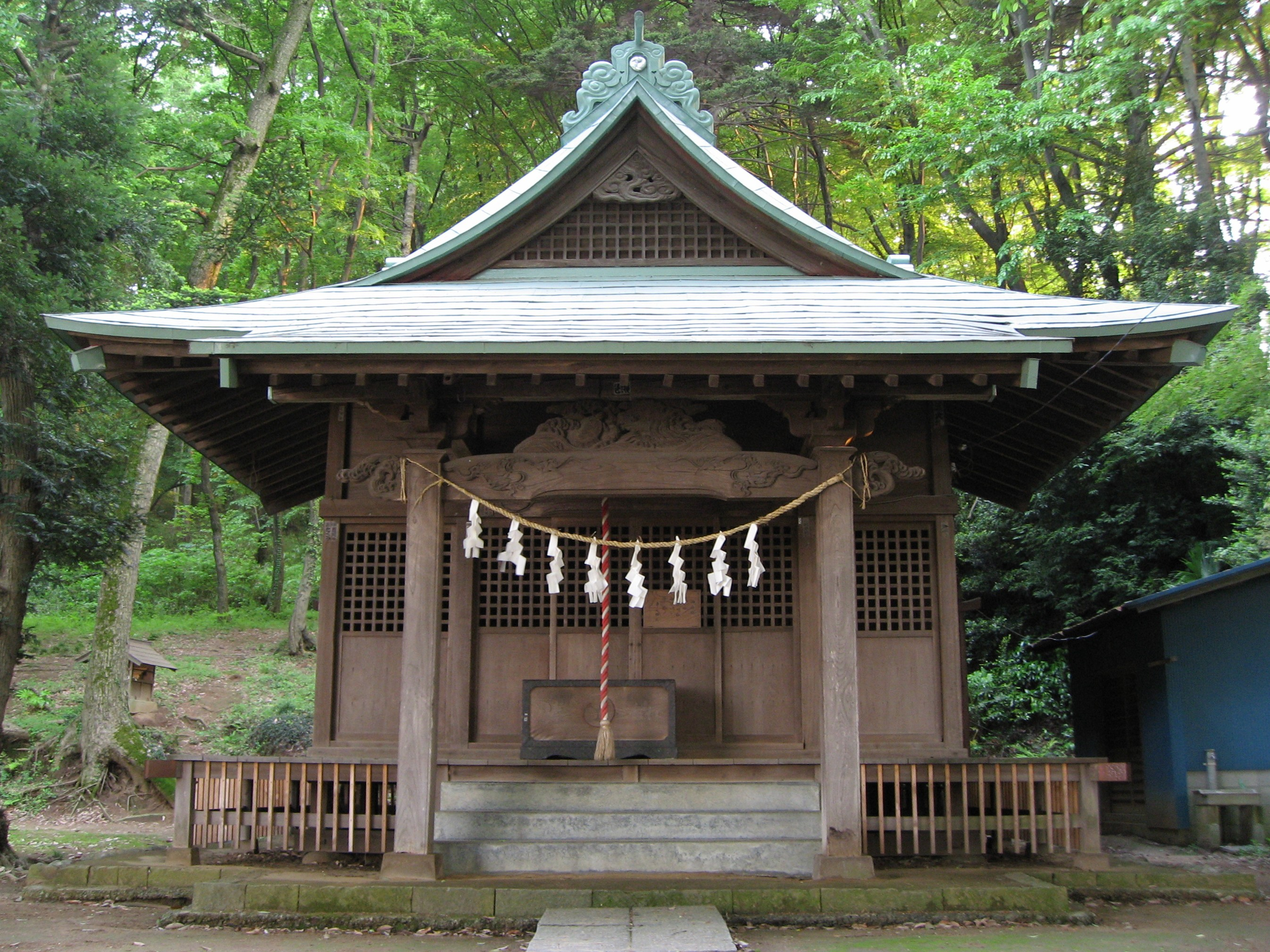 Oomatono Tsunoten Shinto Shrine in Inagi, Tokyo, Japan.